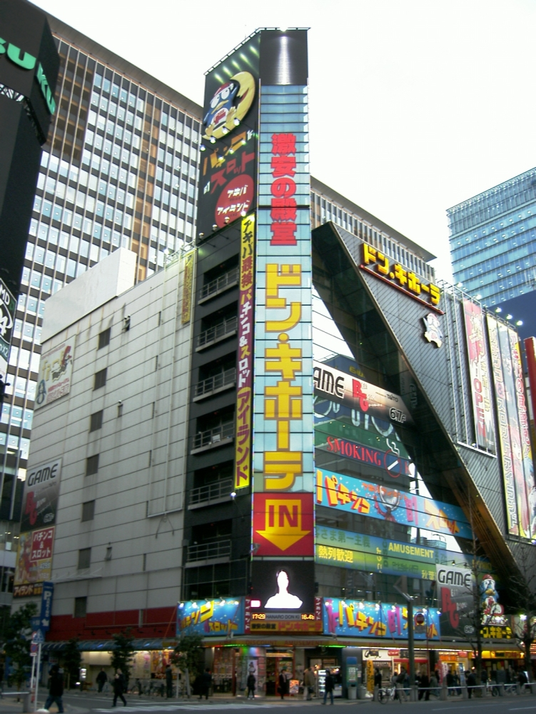 Don Quijote Akihabara Shop, Tokyo, Japan